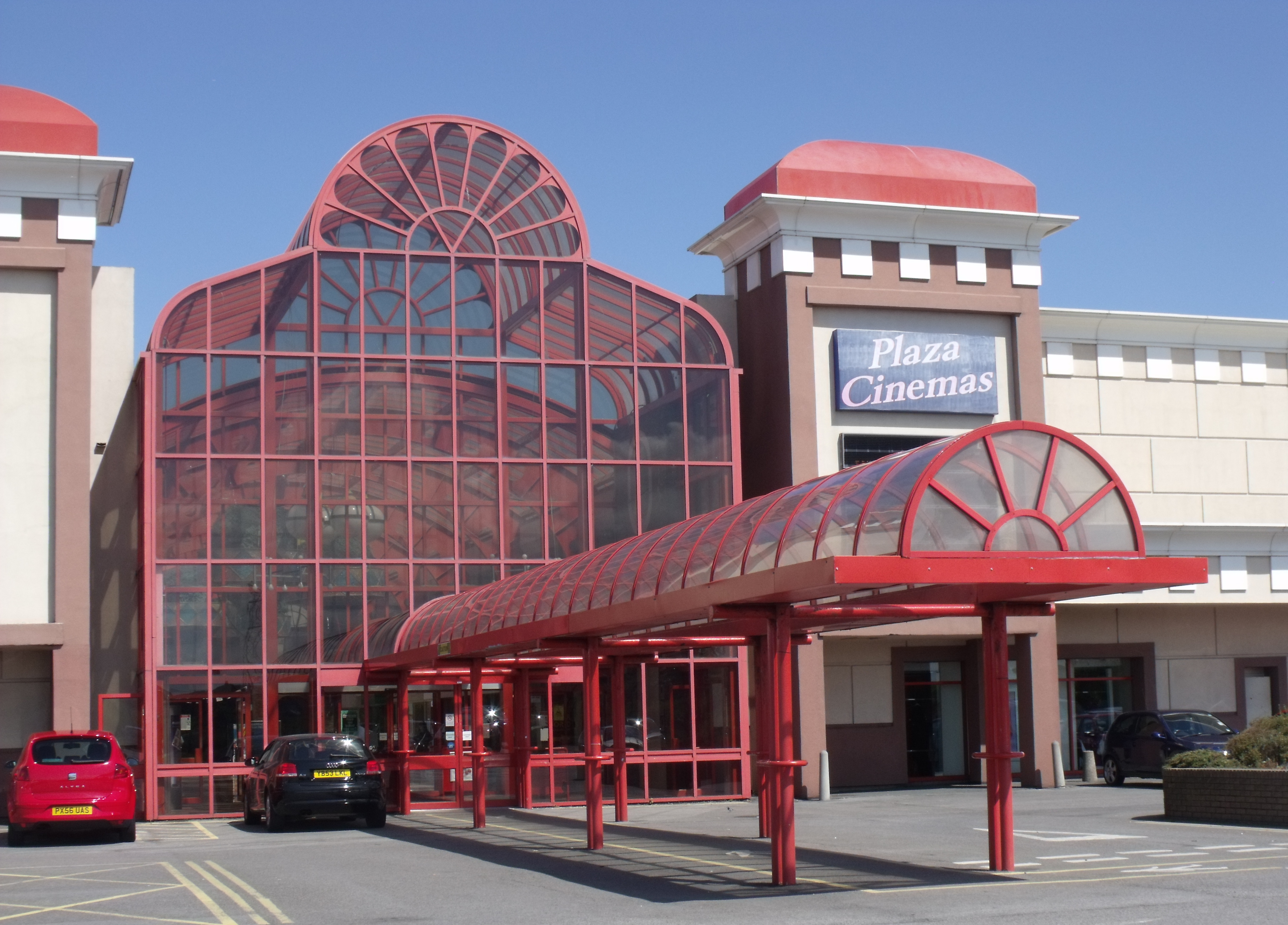 Dunmail Park, Workington.